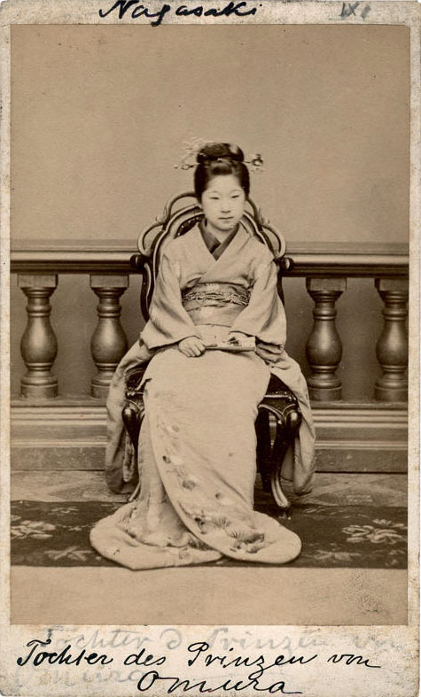 Carte de visite of Ueno Hikoma, daughter of the daimyō of Ōmura, c. 1869-1873.